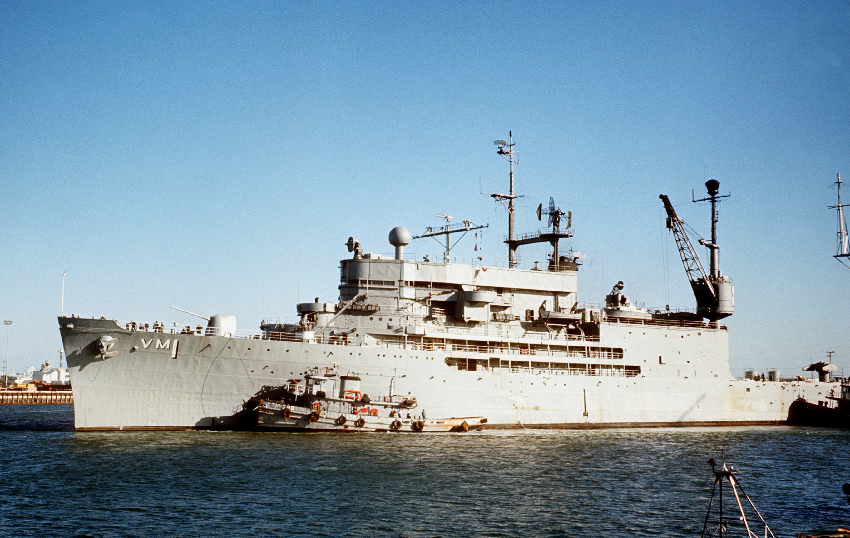 The U.S. Navy test ship USS Norton Sound (AVM-1) leaves the Long Beach Naval Shipyard, California (USA), for gunnery trials, circa in 1969. She was fitted with a Mark 45 127 mm/54-caliber gun in 1968.